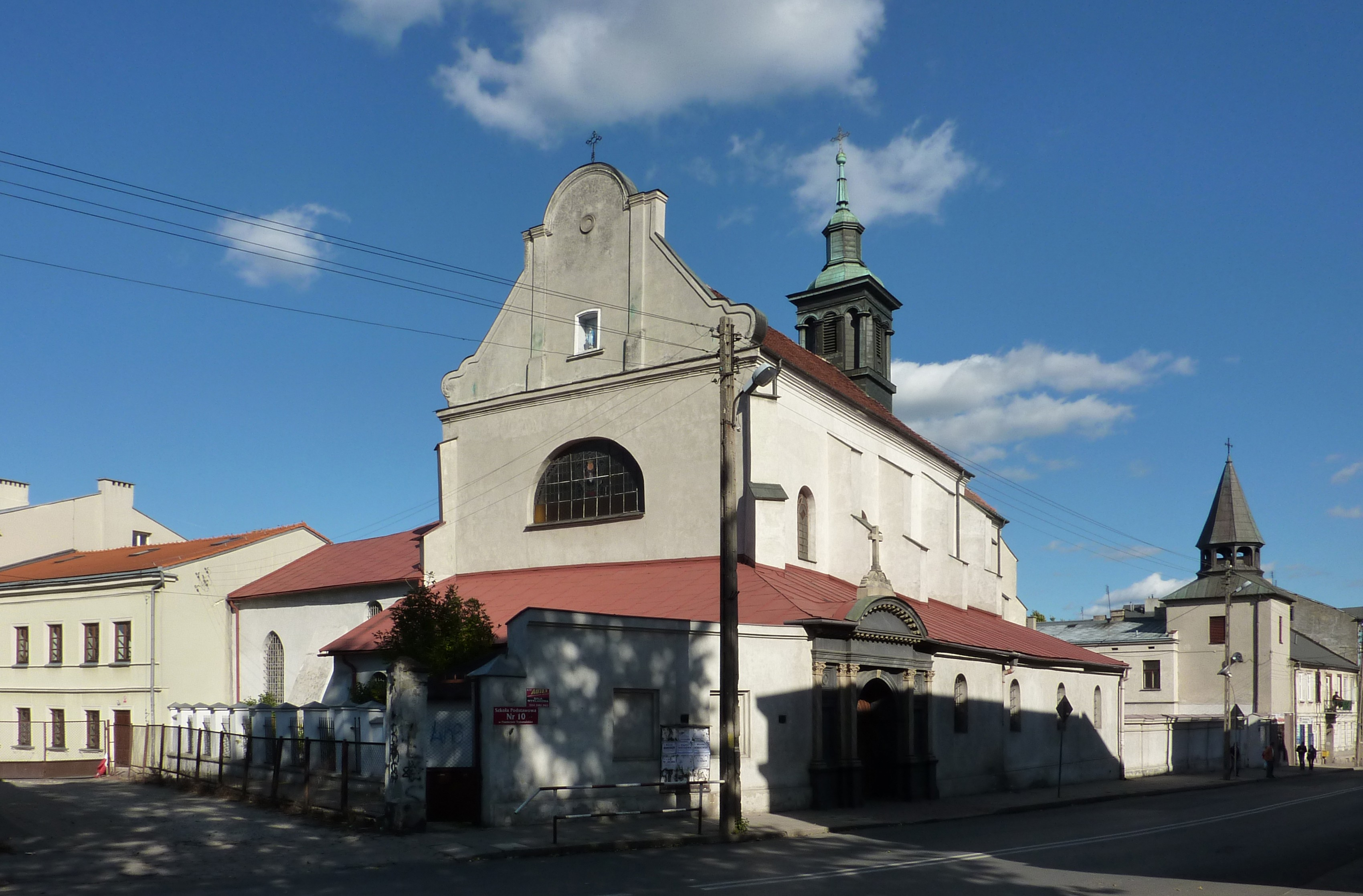 St.Hyacinth and St.Dorothy church in Piotrków Trybunalski, former Dominican church